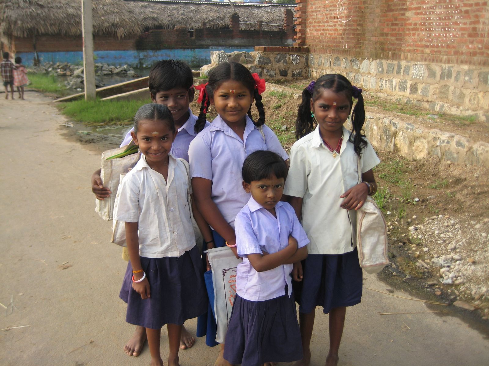 Parayar School Children